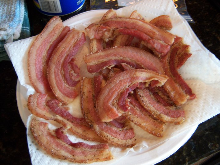 Streak of lean (Streak-o-lean), a type of salt pork that is significantly leaner than regular. Sliced 1/4", lightly boiled (2 minutes), then peppered and fried with just a little vegetable oil.